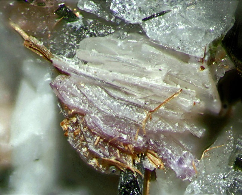 Martinite Locality: Poudrette quarry (Demix quarry; Uni-Mix quarry; Desourdy quarry; Carrière Mont Saint-Hilaire), Mont Saint-Hilaire, Rouville RCM, Montérégie, Québec, Canada Original description: FOV 2.9 x 2.4 mm. Via Jean-Pierre Beckerich (August 1992). This specimen was visually identified (as UK92) by the principal investigator. The brown fibers may be yofortierite but have not been analyzed.